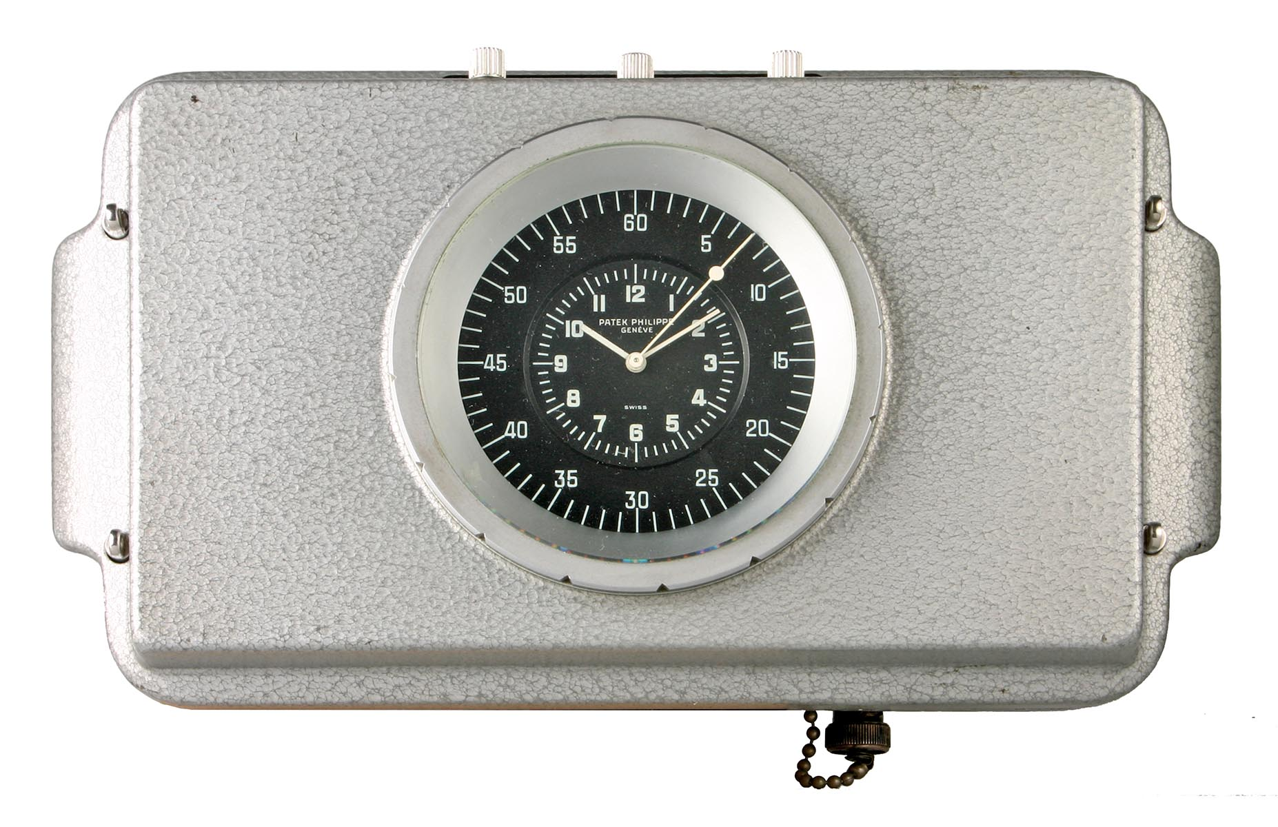 Quartz clock Chronotome CC, Patek Philippe, Genf, 1963 Only few copies of the world's first battery-driven and portable quartz clock have been made.